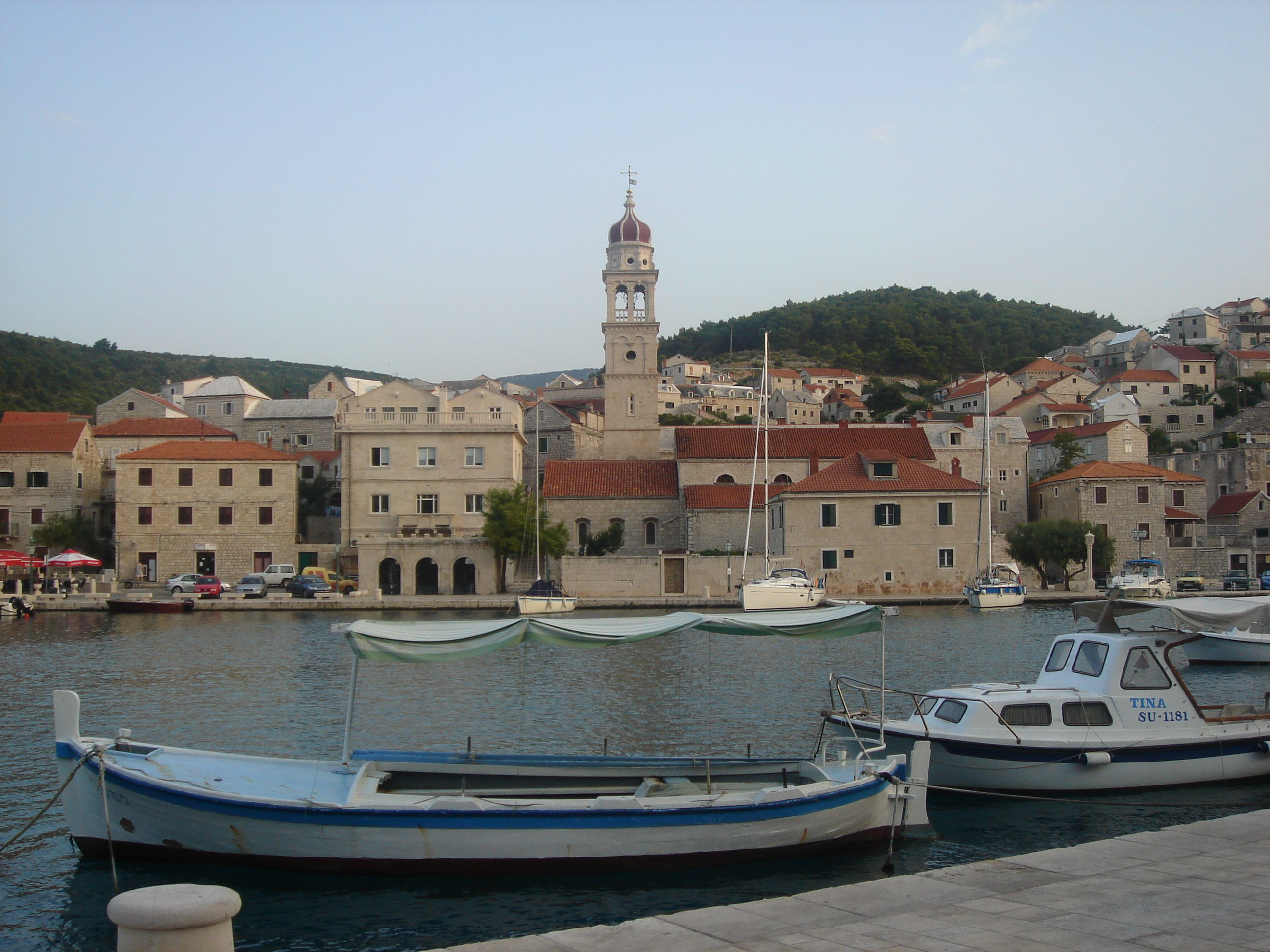 A panoramic view of Pučišća on the coast of Croatia. Photo: Vibor Mulić